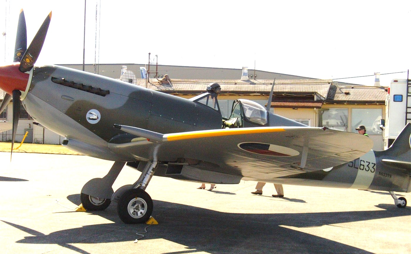 Supermarine Spitfire - Paine Field USA (2010) - Left side view with Czechoslovak Air Force markings.